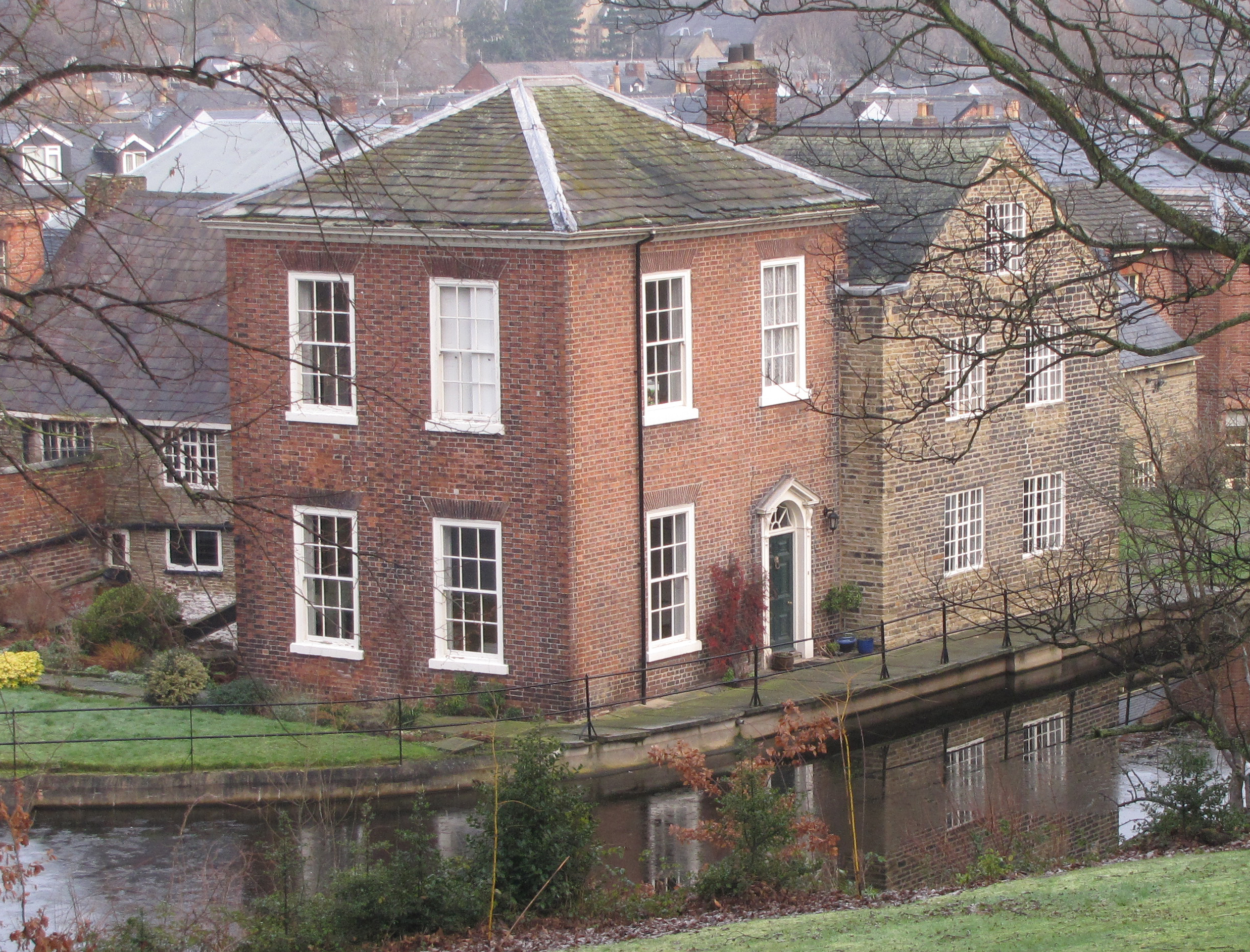 Sharrow Mills in the Sharrow Vale area of Sheffield, England, just off Ecclesall Road. The buildings are the headquarters of Wilsons, snuff manufacturers.